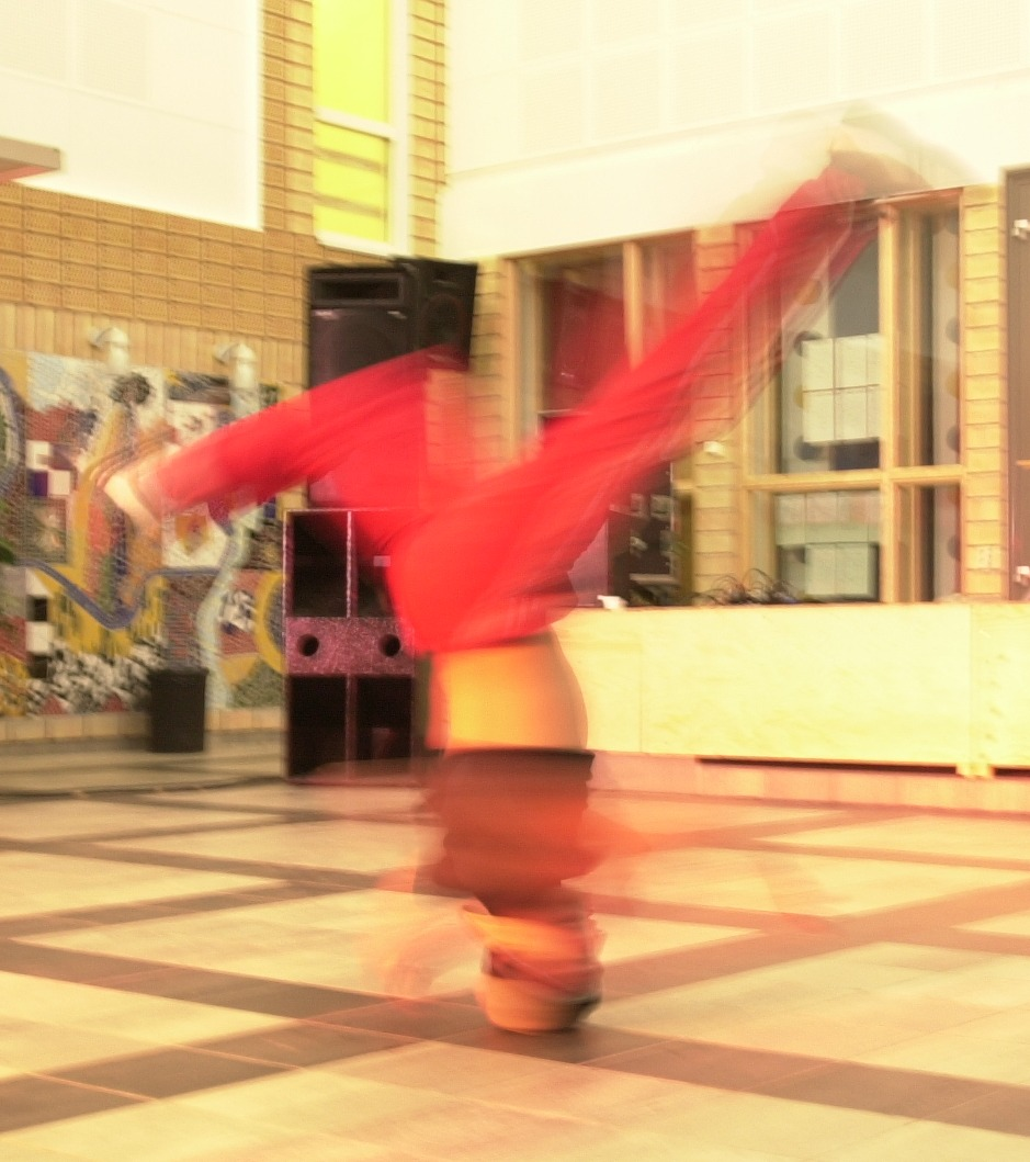 Breakdance power move, head spin, performed by unknown at Set it off 4, Karlstad, Sweden